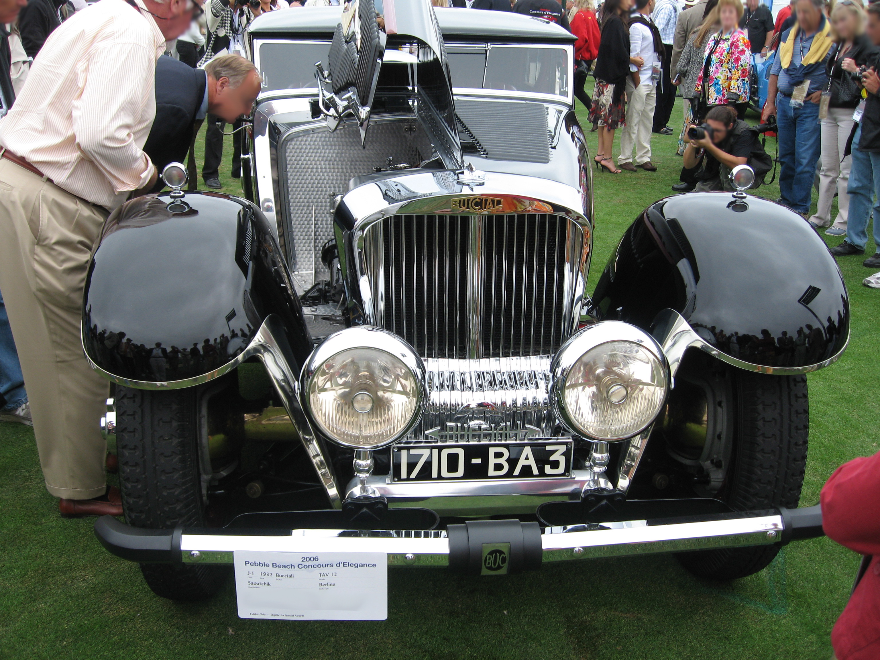 1932 Bucciali TAV8-32 by Saoutchik at the 2006 Pebble Beach Concours d'Elegance